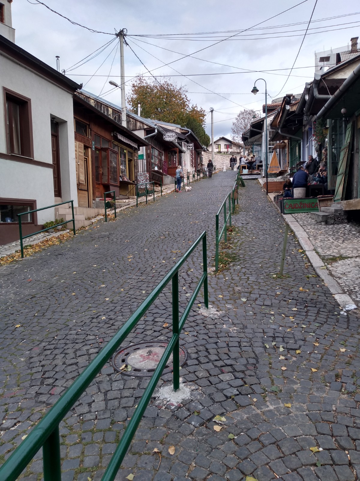 Street Kovači in Sarajevo